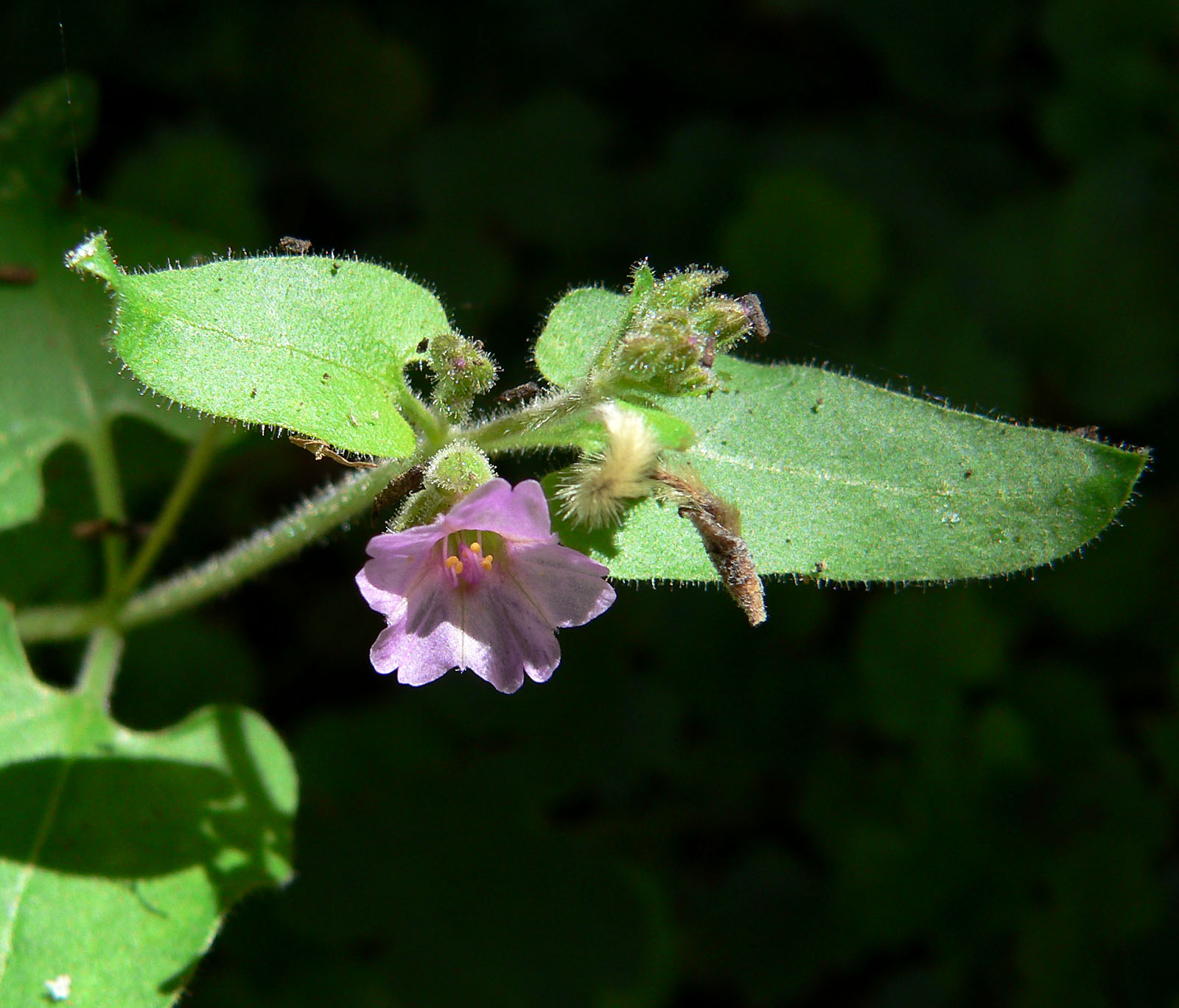 Mirabilis oxybaphoides in Fletcher Canyon, north side of Kyle Canyon, Spring Mountains, southern Nevada (elev. about 2300 m)